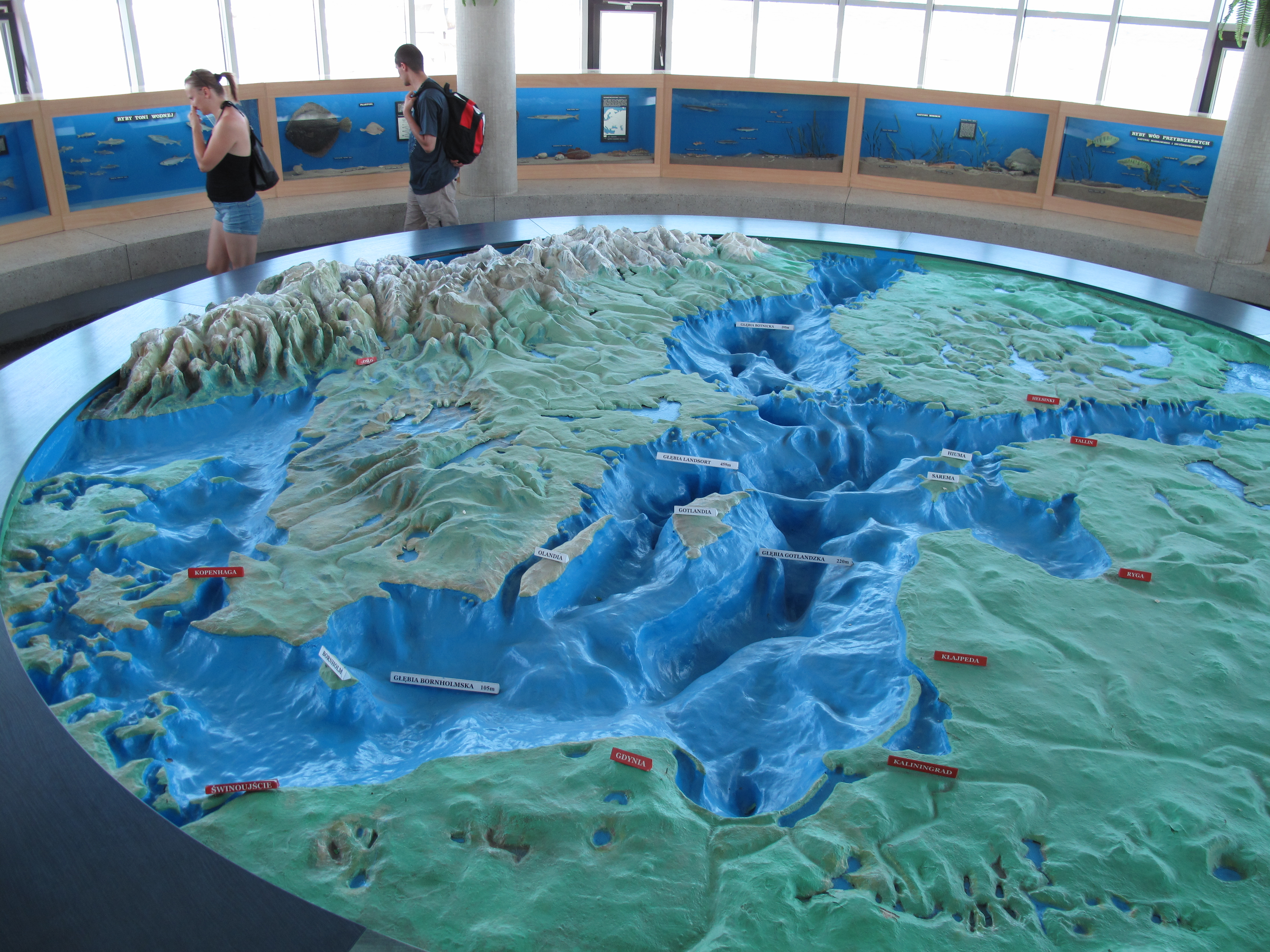 The aquarium in Gdynia, Poland.